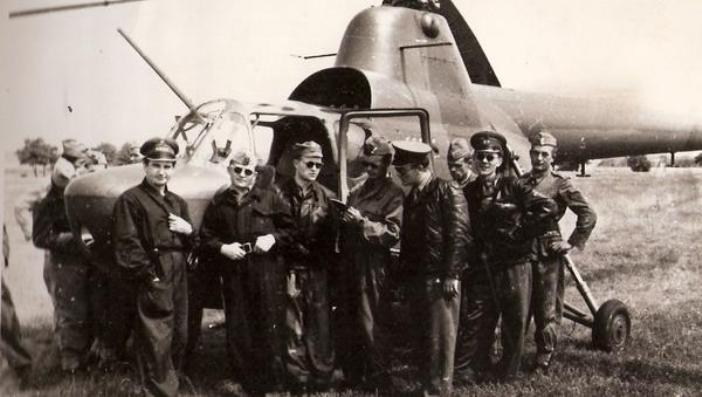 SM-1 na lotnisku w Przasnyszu, w kadrze piloci z 64 lps. oraz z 27 Eskadry Lotniczo Sanitarnej, 1959r.